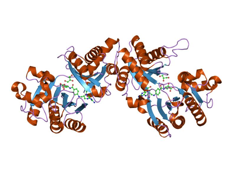 Cartoon representation of the molecular structure of protein registered with 1qd1 code.